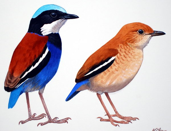 The Blue-headed Pitta, Pitta baudii, is a species of bird in the Pittidae family. It is found in Brunei, Indonesia, and Malaysia.